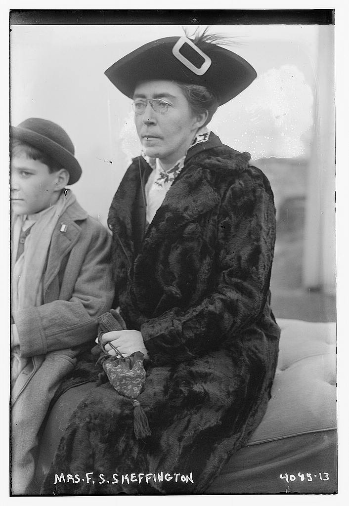 Hanna Sheehy, wife of Francis Skeffington in 1916